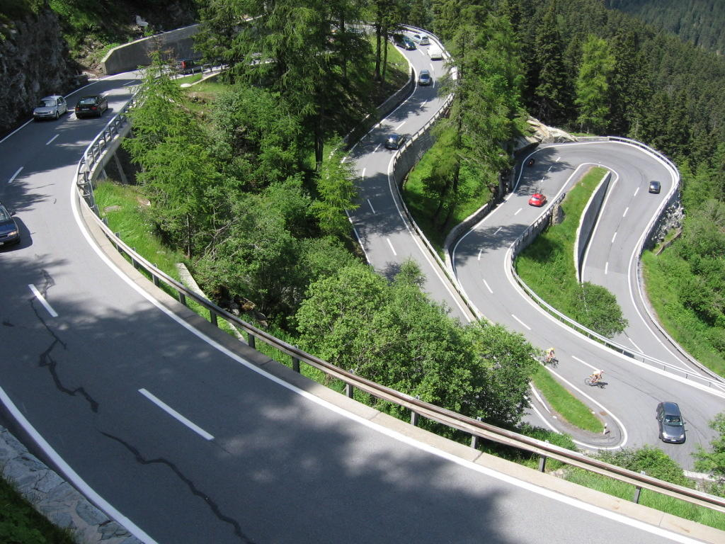 Malojapass